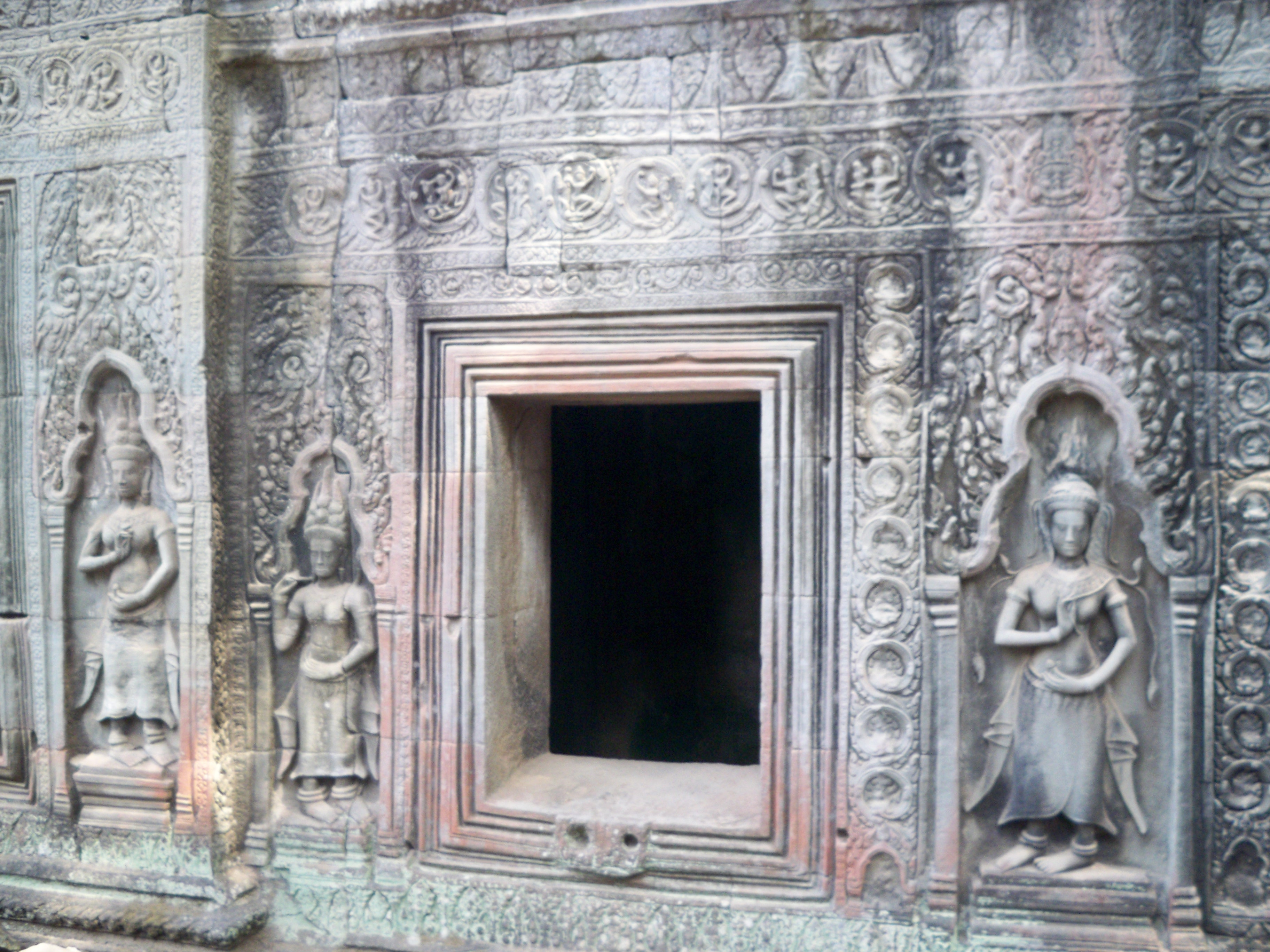 Ta Phrom